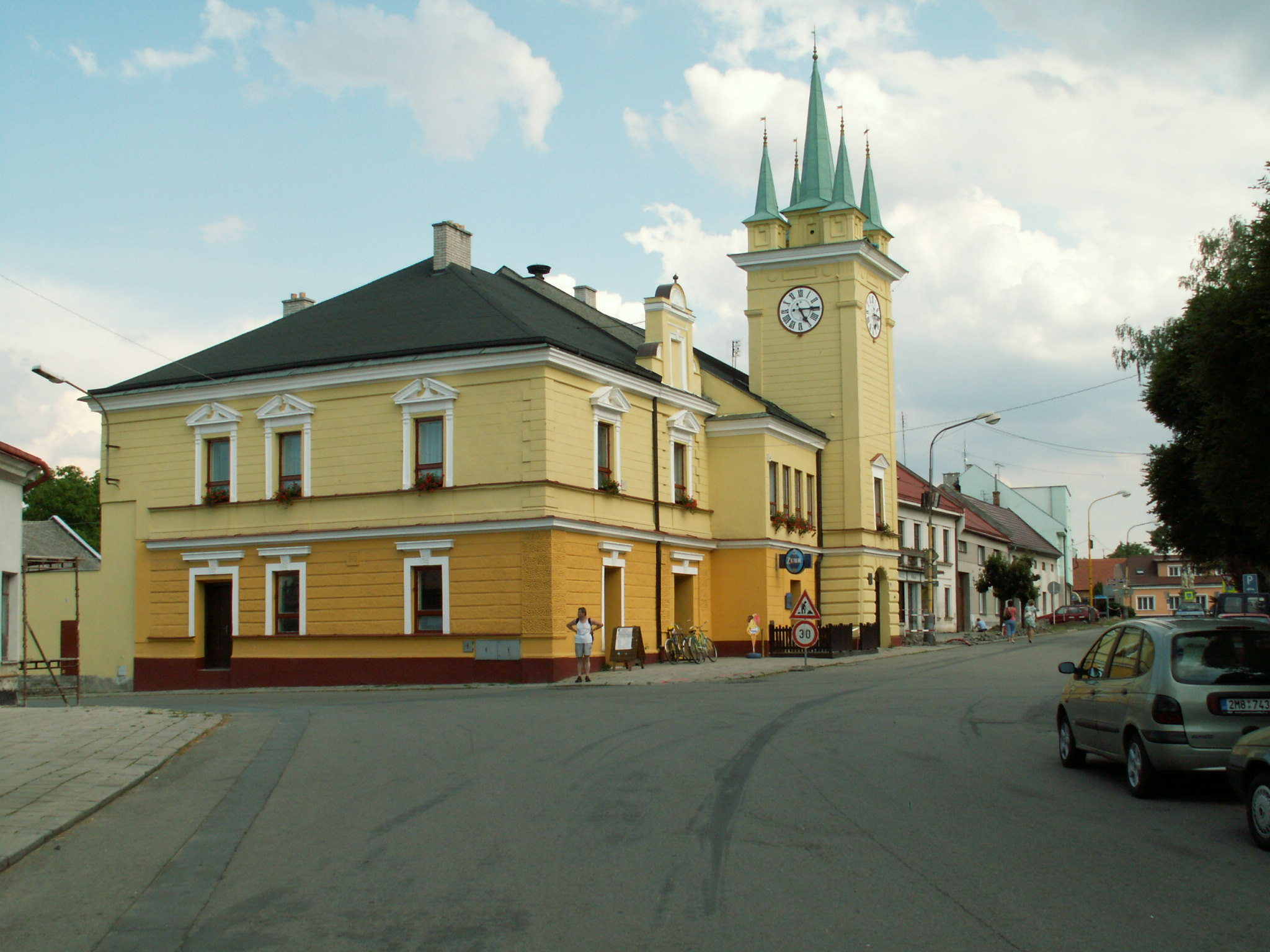 Town hall in Dřevohostice, Přerov District, Czech Republic